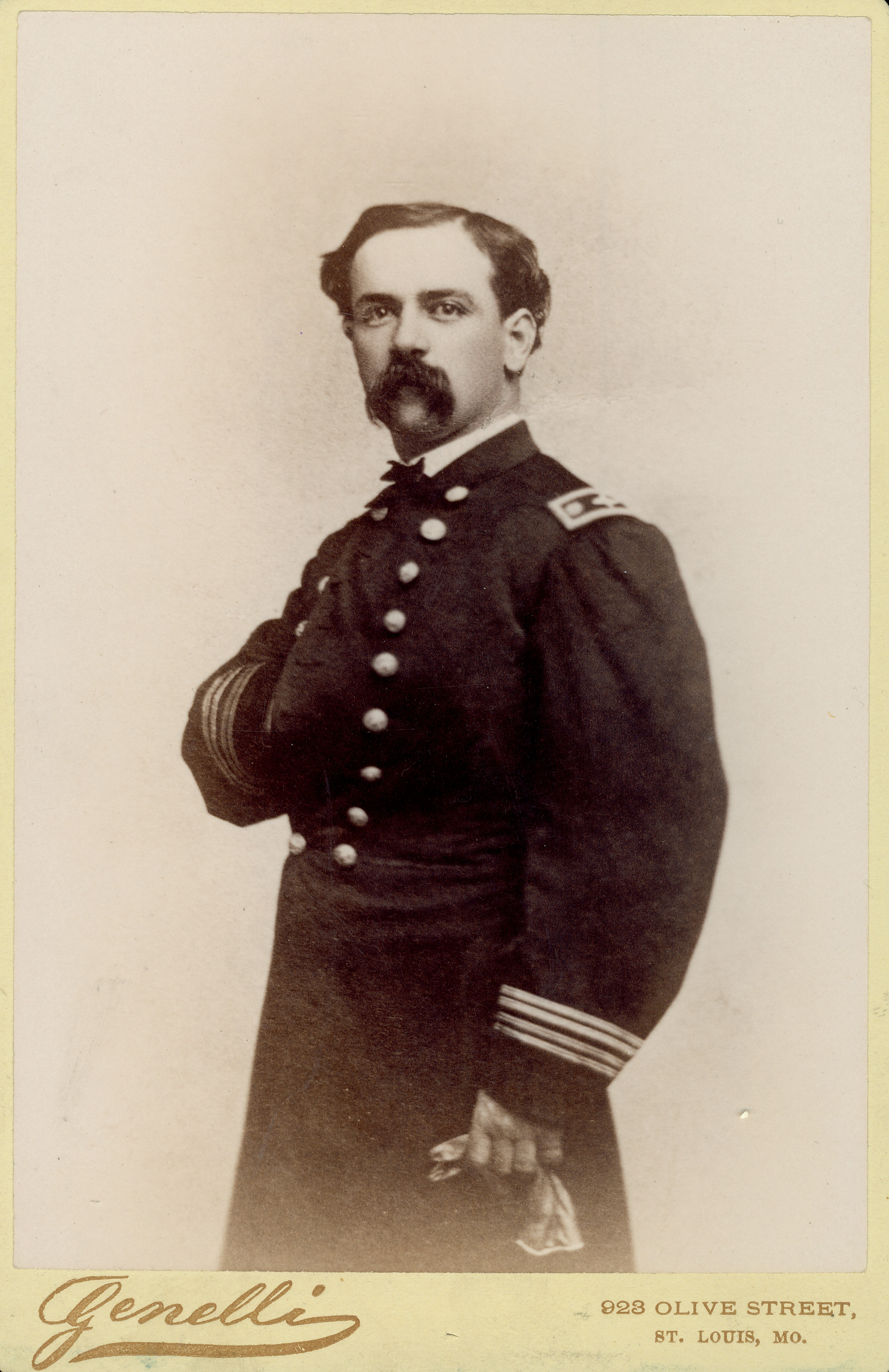 Nearly full-length portrait of Baptista Edne Chassaing in uniform, and standing turned to the left with his left hand inside his jacket. "Genelli" and "923 OLIVE STREET, ST. LOUIS, MO." (printed below image). Chassaing died on August 2, 1874.Title: Baptista Edne Chassaing, Chief Engineer, U.S. Navy.